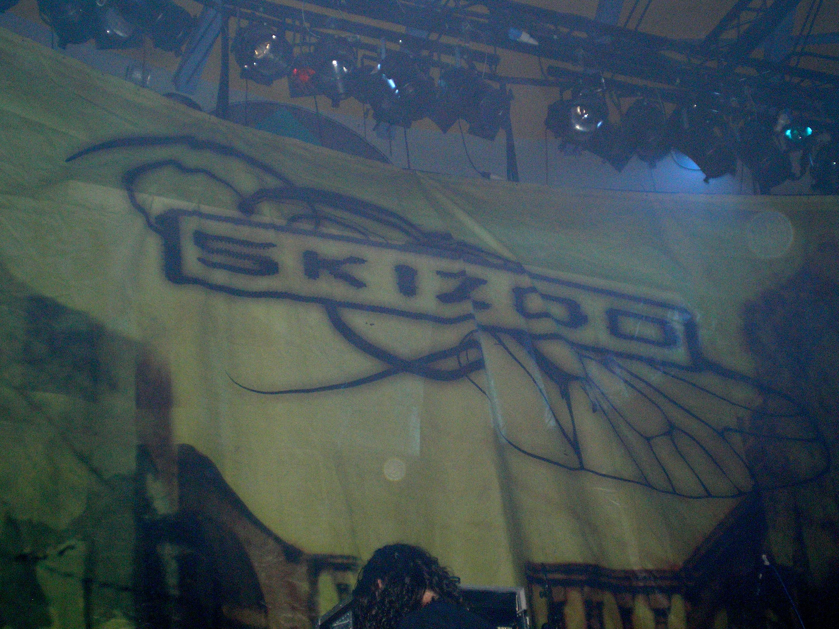 Skizoo logo in a concert in Centro Cívico Delicias, in Zaragoza.